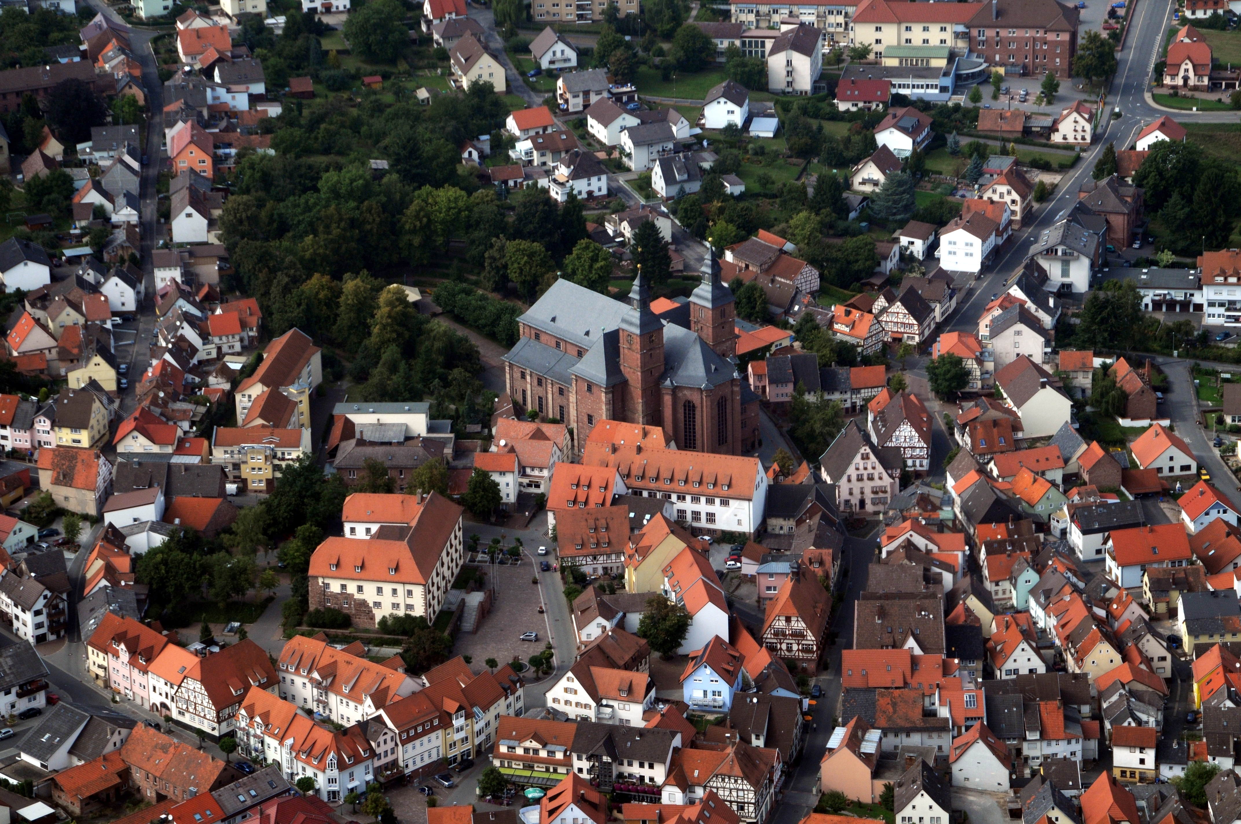 Walldürn, Baden-Württemberg, Germany, aerial photograph